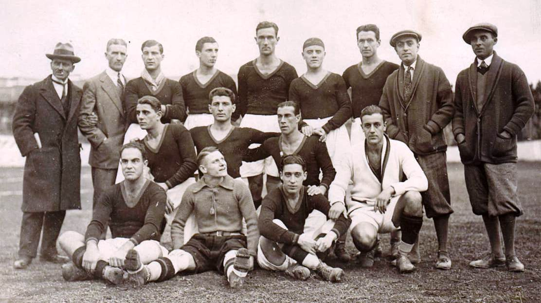 Rome, Appio Motor Speedway, November 13, 1927. A line-up of A.S. Roma took to the field in the home tie versus F.B.C. Juventus (0-0), Matchday 6 of the Italian Championship 1927–28 Divisione Nazionale, Group B. From left to right, top: I. Foschi (president), W. Gambutt (coach), L. Ziroli, C. A. Fasanelli, M. Bussich, E. Cappa, A. Chini Ludueña, A. Cerretti (masseur #1), U. Mogiani (masseur #2): middle: A. Ferraris (IV), G. Degni, P. Rovida, (?); bottom: A. Mattei, G. E. Rapetti, A. Corbyons.